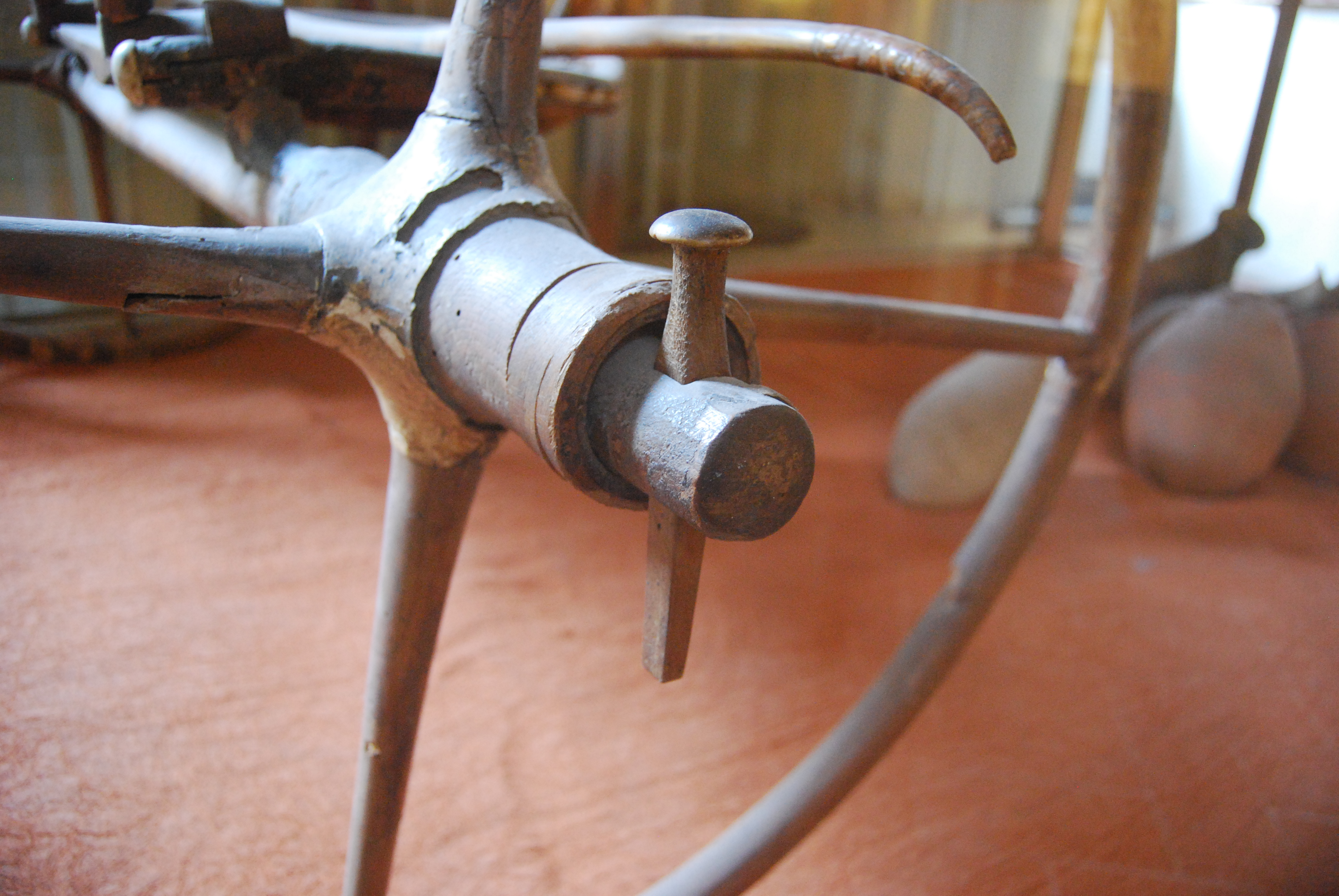 Pezonera o perno de un carro etrusco conservado en el Museo Arqueológico Nacional de Florencia.